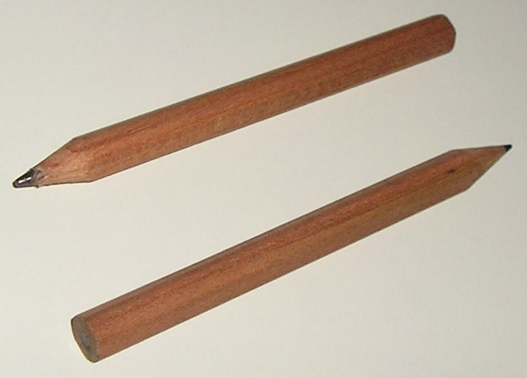 a couple of simple pencils, taken by Joy